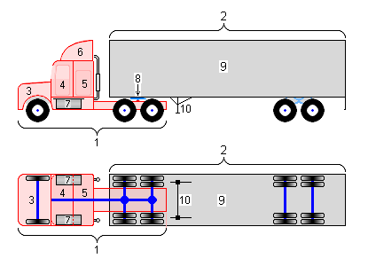 Conventional 18-wheeler Semi-Trailer Truck diagram